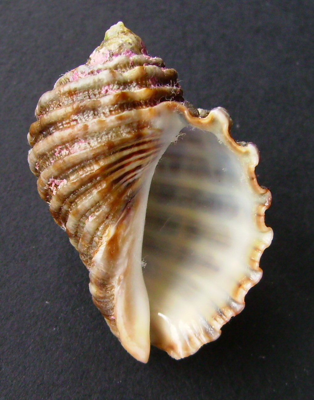 Dicathais orbita (underside) from Whangarei Heads, New Zealand. This work has been released into the public domain by its author, Graham Bould. This applies worldwide. In some countries this may not be legally possible; if so: Graham Bould grants anyone the right to use this work for any purpose, without any conditions, unless such conditions are required by law.